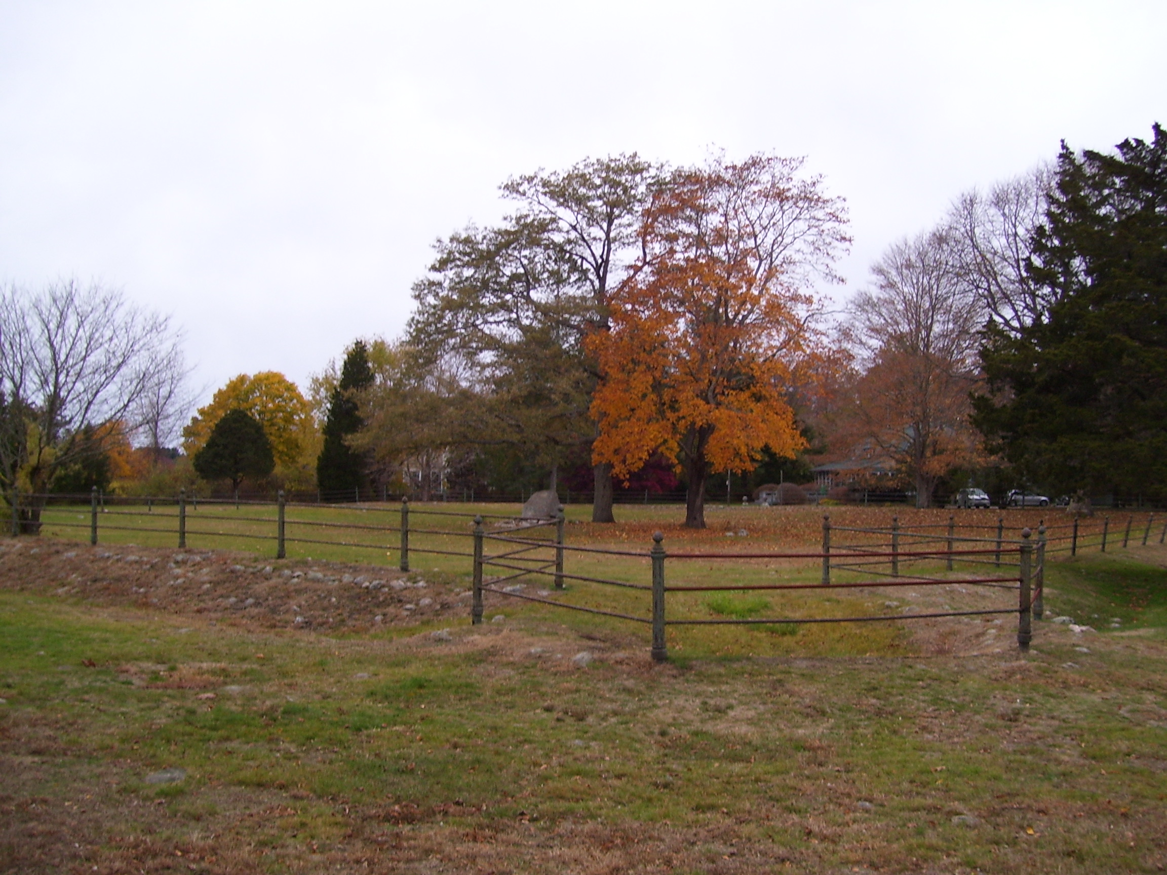 This is my 2008 photo of Fort Ninigret in Charlestown, Rhode Island.